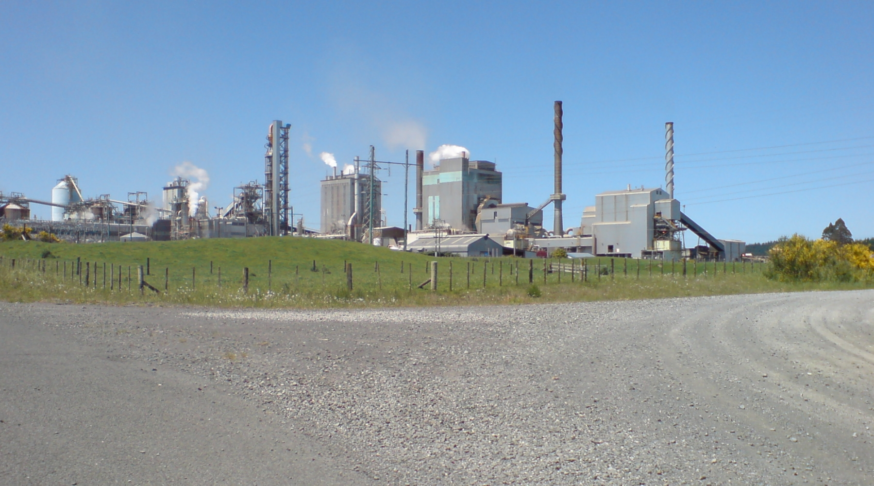 Kinleith Mill, a paper and pulp mill in the Waikato Region of New Zealand. The building at the right is a cogeneration power plant burning wood waste to provide electric power. This is in turn mainly used in the paper-making process.